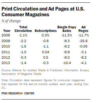 Print Ad sales drop over the years